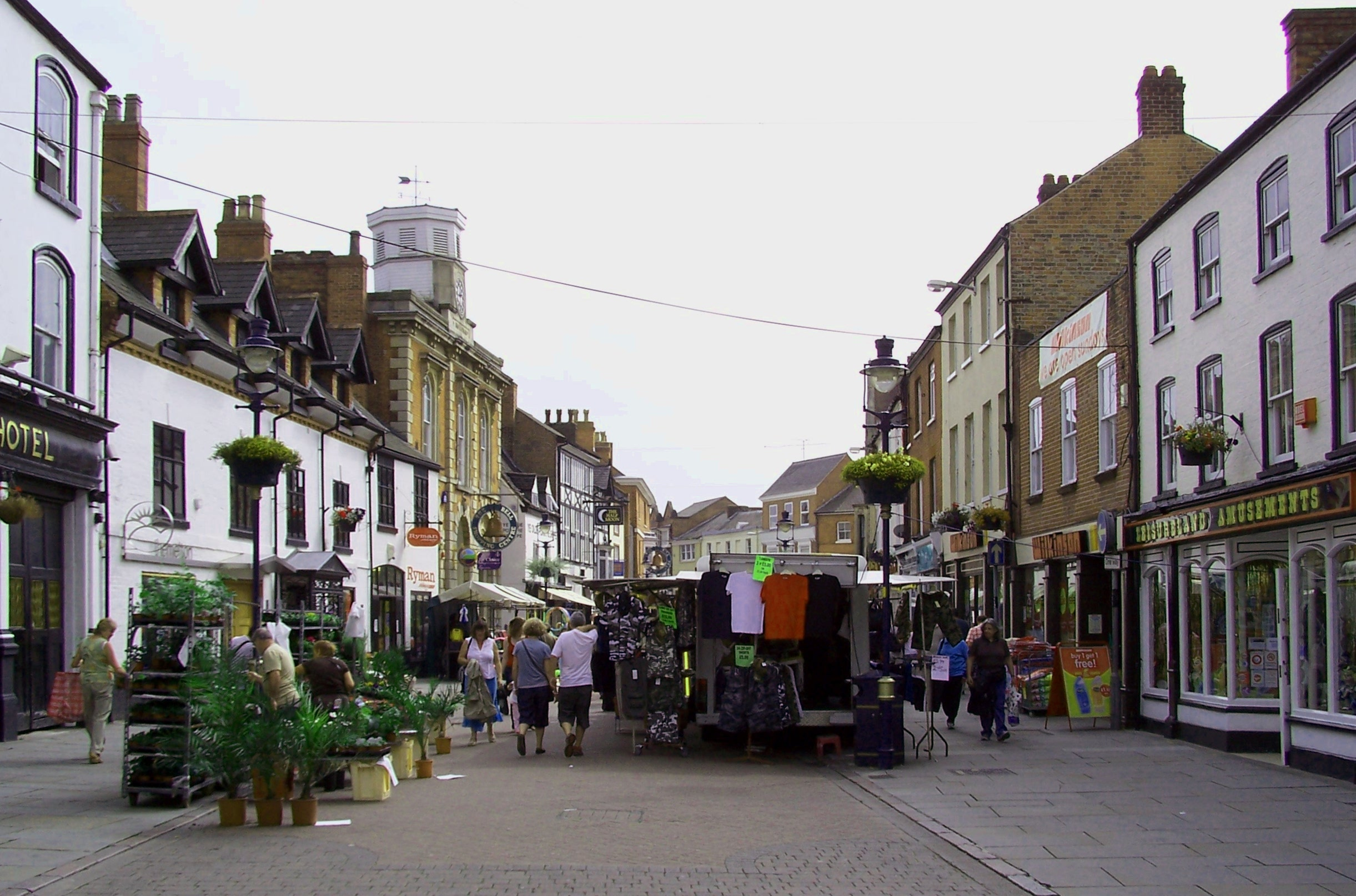 Market ... Sunday.... in Melton Mowbray - Leicestershire